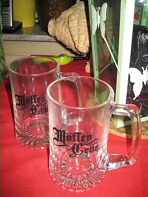 Mötley Crüe glasses